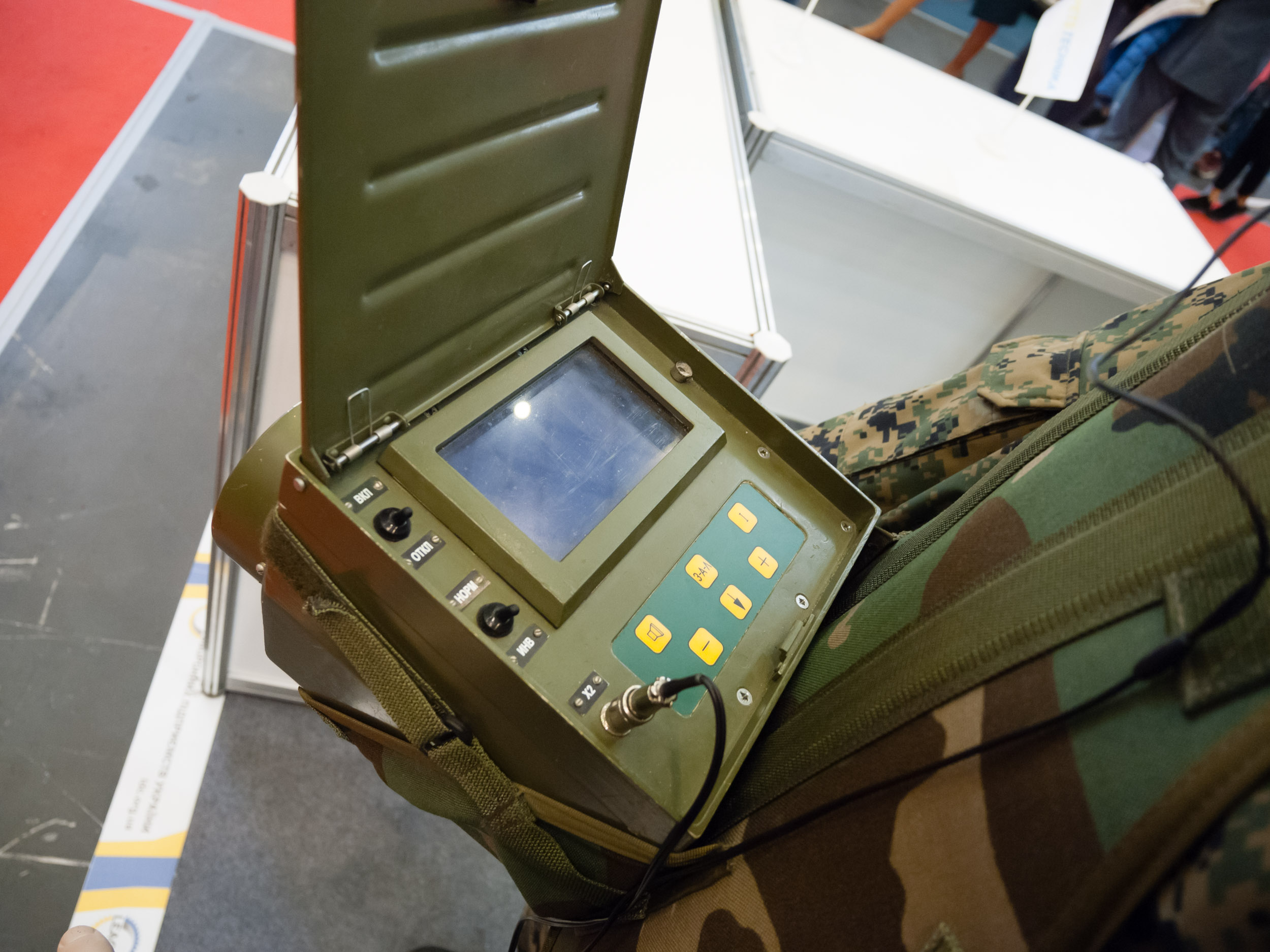 Borsuk radar by Ukrspetstechnika (Ukraine) at 'Zbroya ta Bezpeka' military fair, Kyiv, Ukraine, 2018